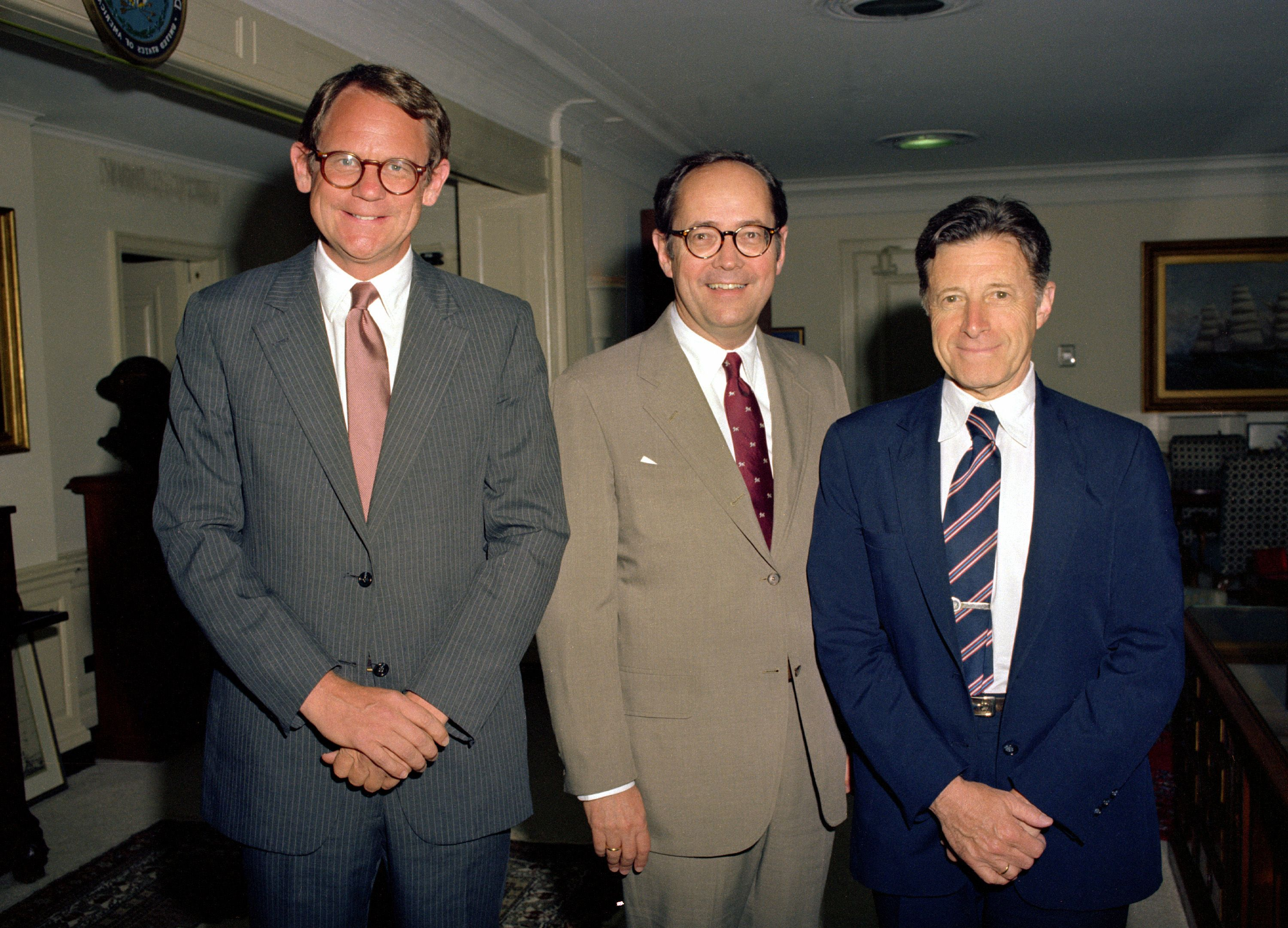 "Secretary of Defense Caspar Weinberger visits Pennsylvania Governor Dick Thornburgh and Delaware Lieutenant Governor Michael N. Castle in his office in the Pentagon, Room 3E880. Location: WASHINGTON, DISTRICT OF COLUMBIA (DC) UNITED STATES OF AMERICA (USA)"